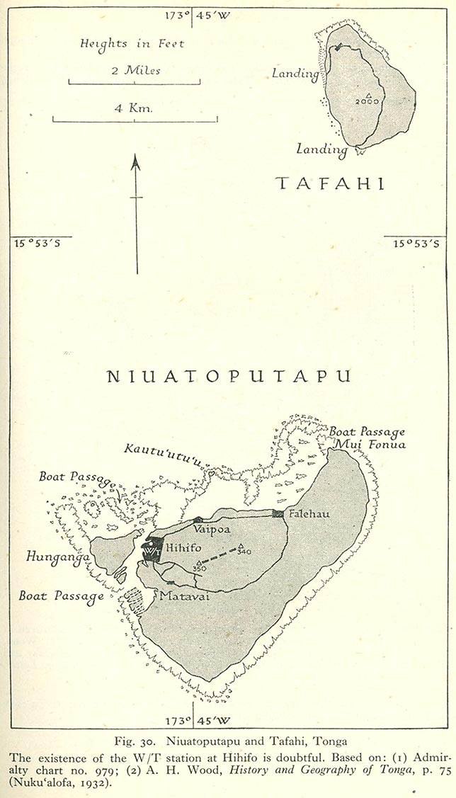 Niuatoputapu and Tafahi, Niua Islands, northern Tonga, Pacific Ocean